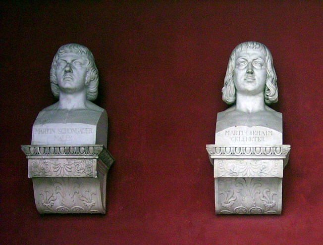 Busts of Martin Schongauer and Martin Behaim at Ruhmeshalle ("Hall of fame"), München, Germany. Picture taken by myself: Dominik Hundhammer, München, 27 March 2006.